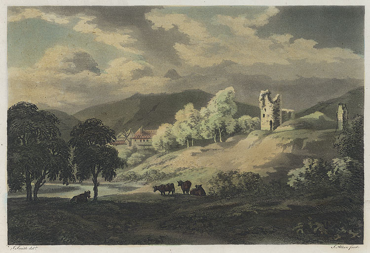 Shows cattle grazing in foreground with castle in background.